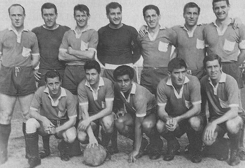 The 1963 Villa Dálmine team that won the Primera C Argentina title.